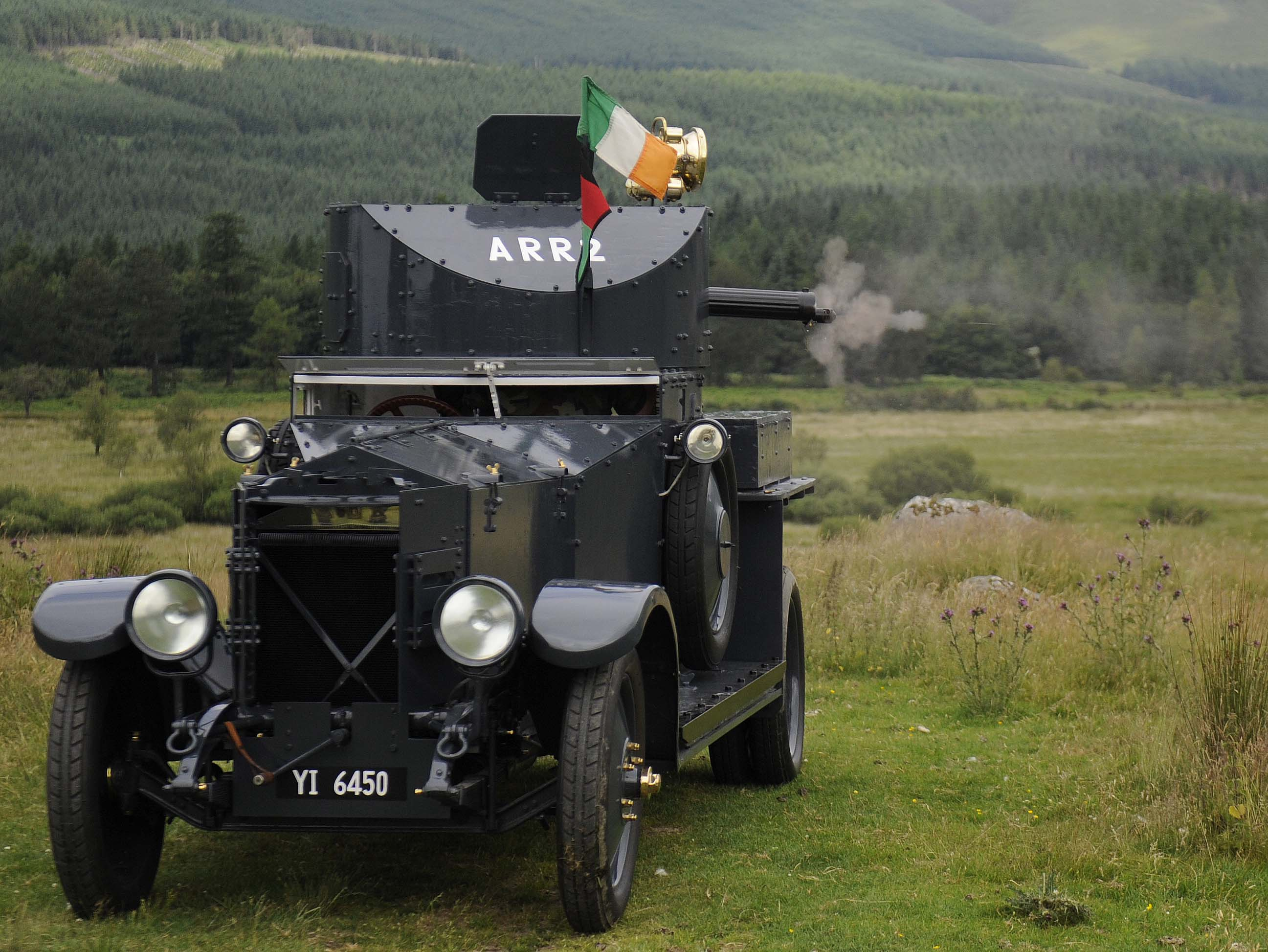 The Sliabh na mBan fires again and becomes one of the oldest operational armoured cars in the world